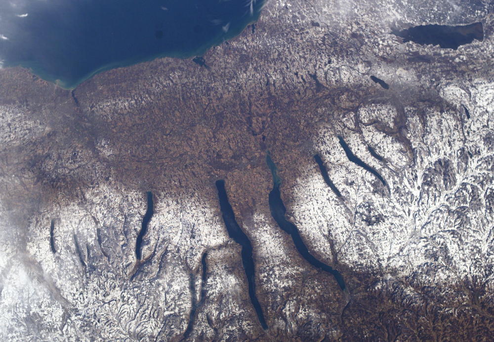 New York's Finger Lakes A late fall snowstorm frosted the hills of the Finger Lakes region of central New York in early December. Shapes of the snow-covered hills are accented by the low Sun angles, and contrast with the darker, finger-shaped lakes filling the region’s valleys. The steep, roughly parallel valleys and hills of the Finger Lakes region were shaped by advancing and retreating ice sheets that were as much as 2 miles deep during the last ice age (2 million years to about 10,000 years ago). River valleys were scoured into deep troughs; many are now filled with lakes. The two largest lakes, Seneca and Cayuga, are so deep that the base of their lakebeds are below sea level. The cities of Rochester, Syracuse, and Ithaca are included in this field-of-view, taken from the International Space Station. These three cities enjoy large seasonal snowpacks, thanks to the influence of the Great Lakes producing lake-effect snowstorms. Despite its reputation for long winters, the region is balmy compared with the glacial climate present when the landscape was carved. At the time of the greatest ice extent, yearly average temperatures over northern North America were several degrees lower than today. Astronaut photograph ISS010-E-9366 was acquired December 4, 2004, with a Kodak 760C digital camera with a 50-mm lens, and is provided by the ISS Crew Earth Observations experiment and the Image Science & Analysis Group, at NASA’s Johnson Space Center. The International Space Station Program supports the laboratory to help astronauts take pictures of Earth that will be of value to scientists and the public, and to make those images freely available on the Internet. Additional images taken by astronauts and cosmonauts can be viewed at the NASA/JSC Gateway to Astronaut Photography of Earth.